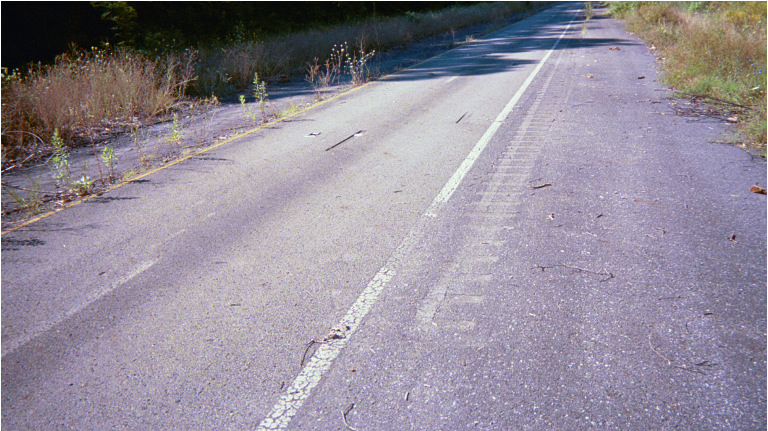 Pic of SNAP testing of rumble strips. Took myself 08/17/2006